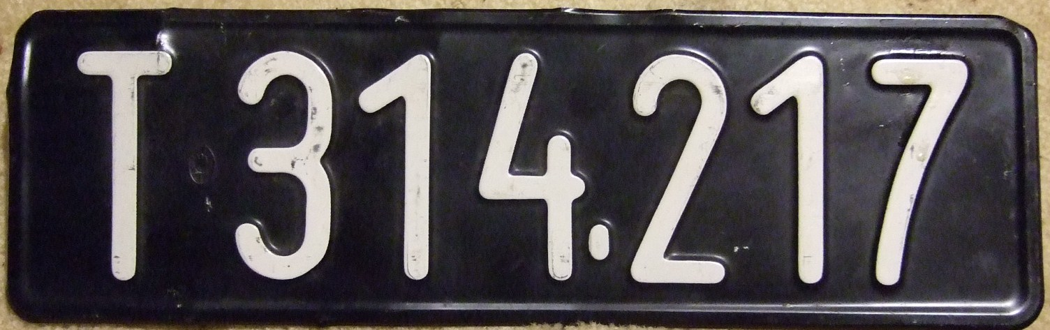 This Austrian license plate measures 17 1/2 inches X 5 1/2 inches. Similar style but larger than the later issued plates of this style. ALPCA Archives states the 1946 plates were this size but the the 1947 series were an inch shorter. I am not sure of the details, plate is marked 1947 on the back.